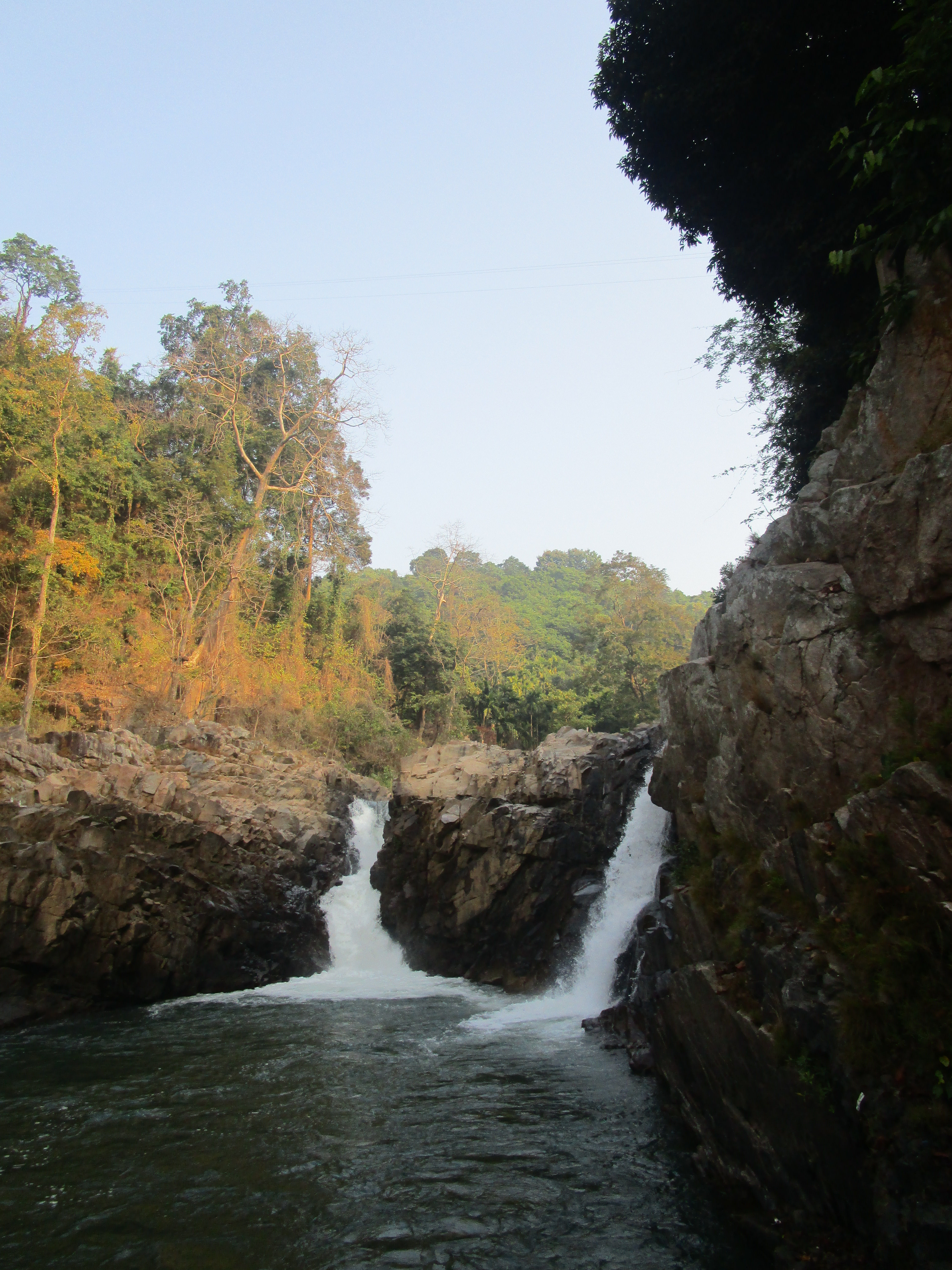 Pelga falls at West Garo Hills, Meghalaya.